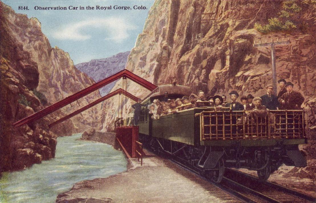 Postcard photo of a Denver and Rio Grande Western train at the Hanging Bridge in the Royal Gorge. The car that appears to be a flatcar on the back of the train was the observation car for non-first class passengers. Those in first class were able to use the enclosed observation car seen directly in front of the open one. "Tourist class" fare entitled one to use the open car only.